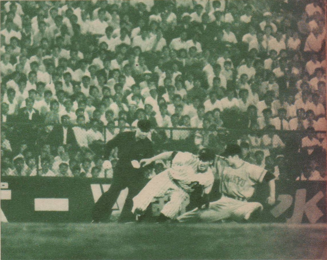 Akiteru Kono (Hankyu Braves. right), steals third base (taken in July 1956).